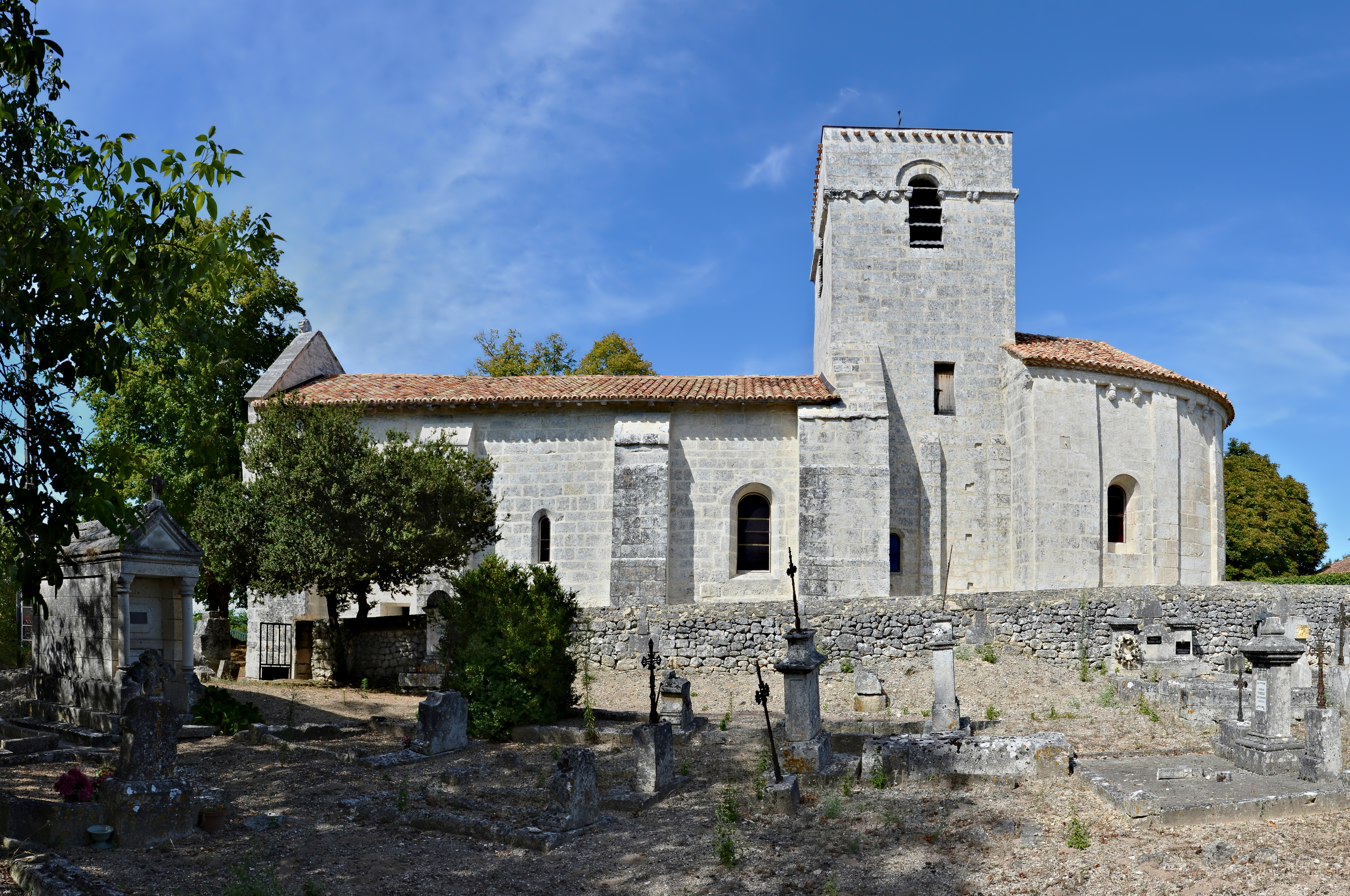 Church of Argentine (11th, 12th and 15th centuries), as seen from SSW, La Rochebeaucourt-et-Argentine, Dordogne, France. .